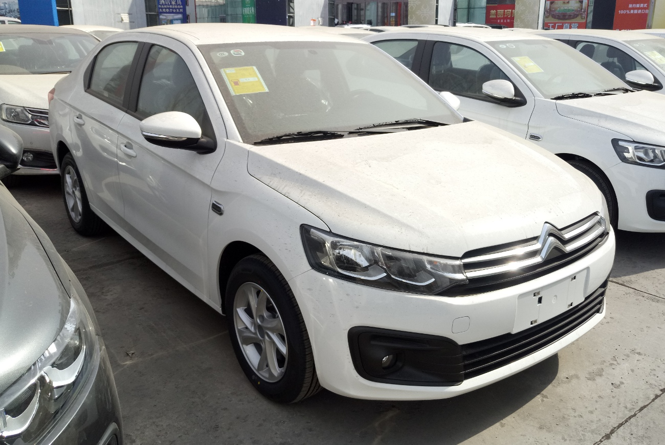 Citroën C-Elysée II facelift photographed in Harbin, Heilongjiang province, China.